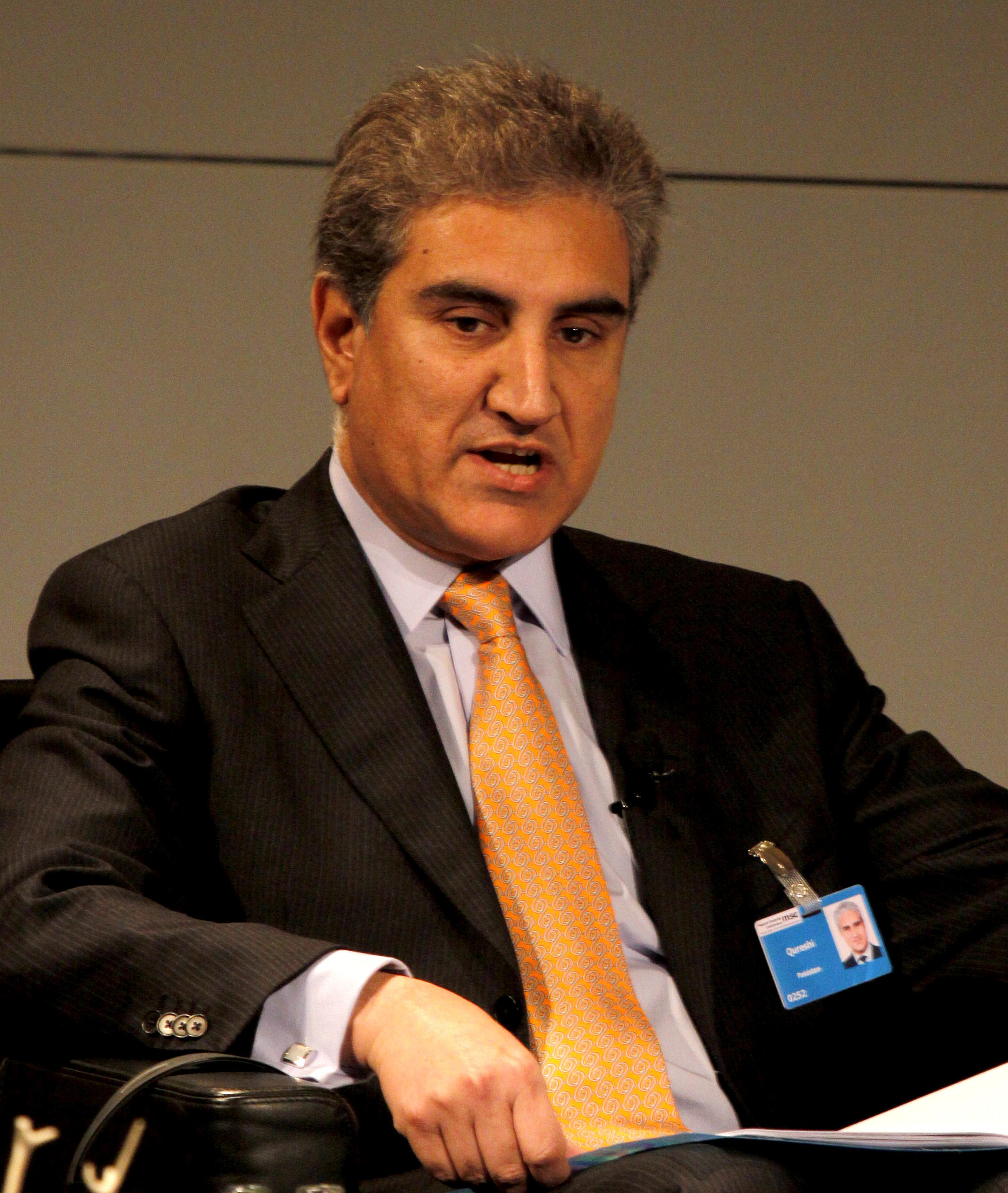 45th Munich Security Conference 2009: Mahmood Shah Makhdoom Quereshi, Minister of Foreign Affairs, Islamic Republic of Pakistan.